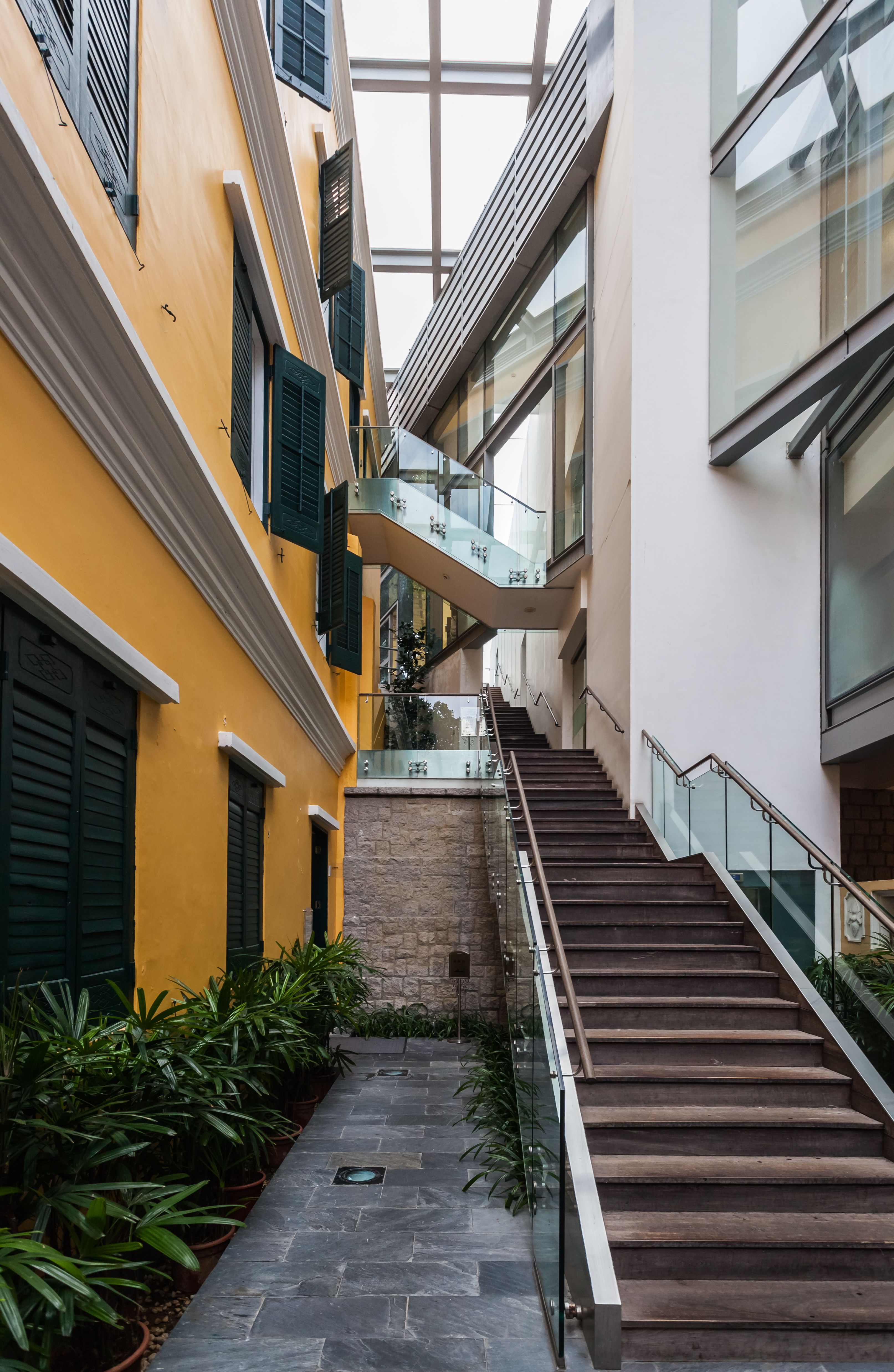 Robert Ho Tung Library, Macau